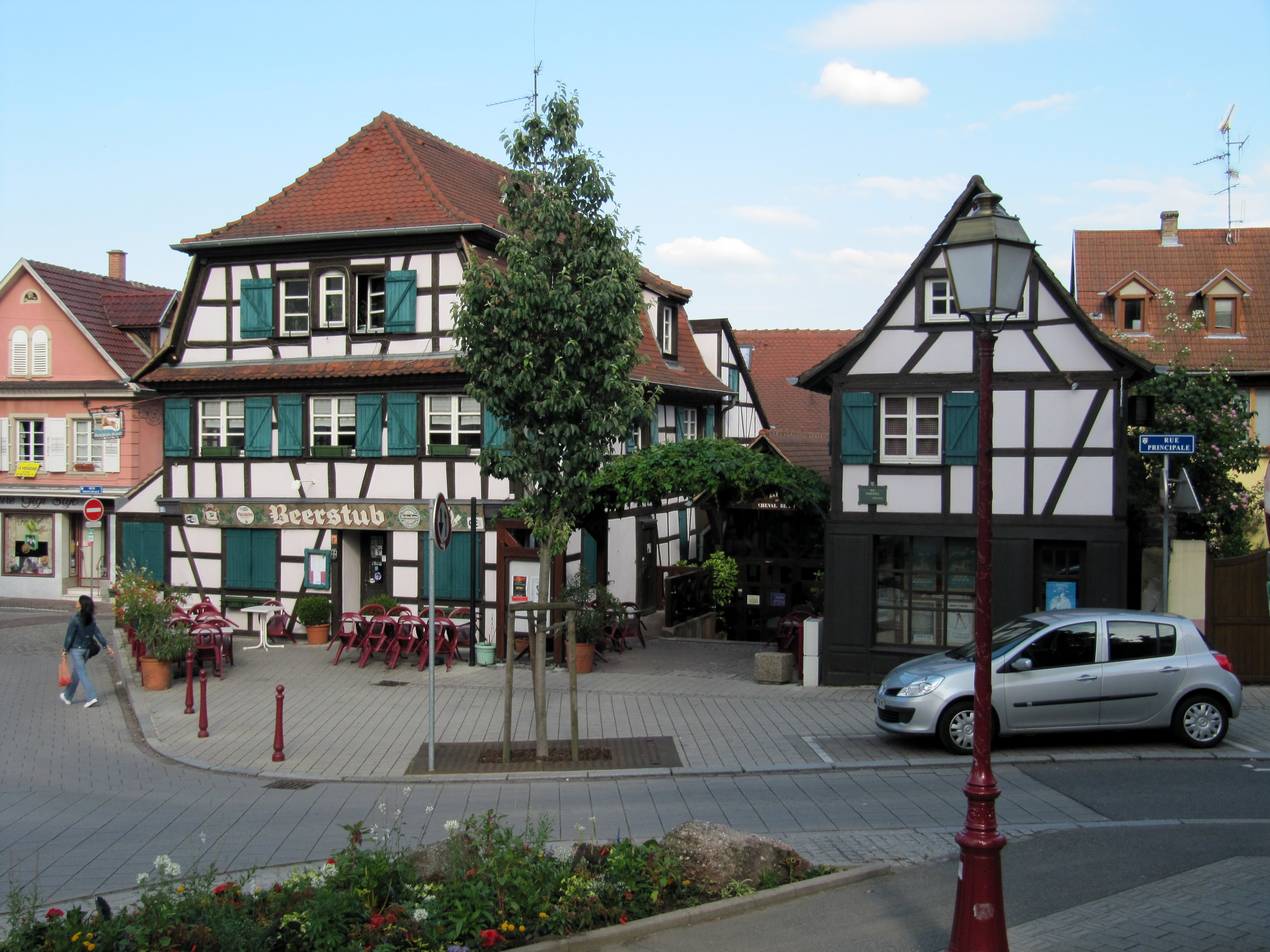 House